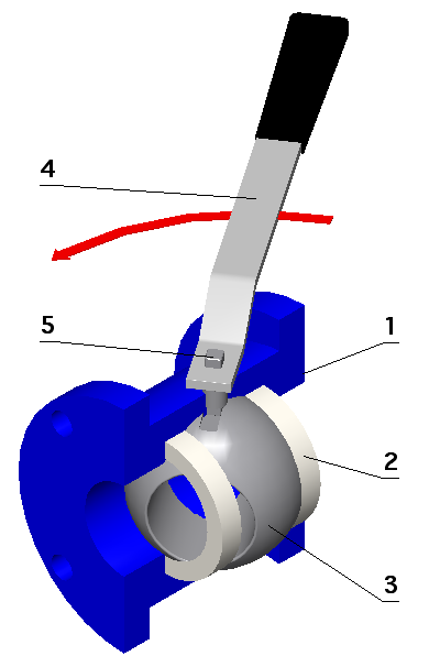 Cutaway of a simple manual ball valve 1) Body 2) Head 3) Ball 4) Lever handle 5) Stem